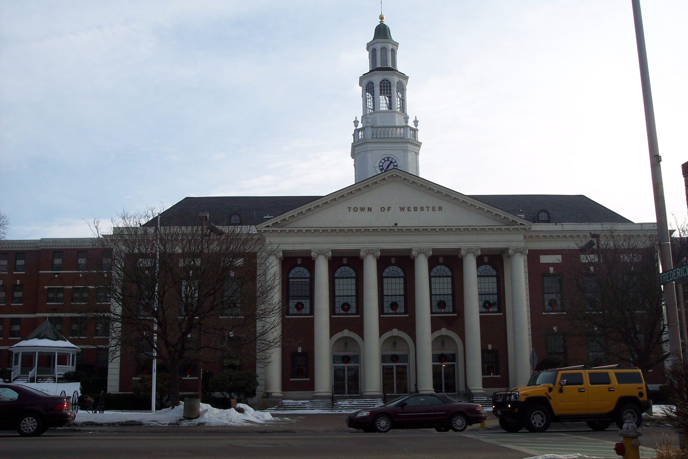 Town hall of Webster, Massachusetts